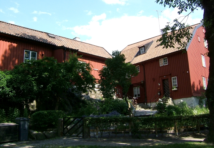 The Gathenhielm reserve in Göteborg, Sweden, the street Pölgatan